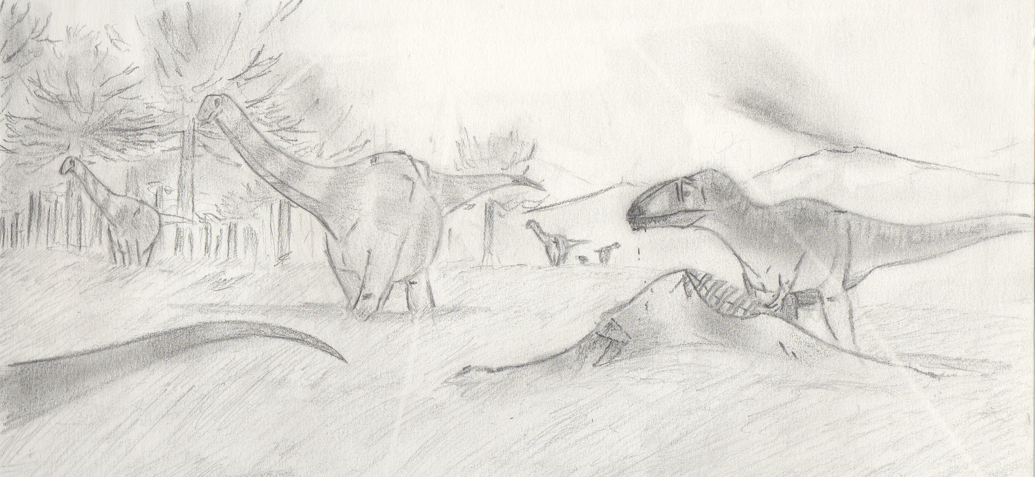 Giganotosaurus carolinii feeding on the carcass of an Andesaurus delgadoi on a migration route